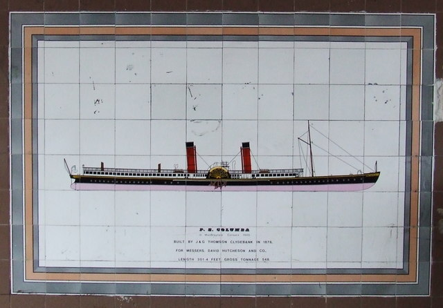 RMS Columba There are several of these tile mosaics in the pedestrian underpass from the Bullring car park to Wallace Square, Greenock. Each depicts a Clyde Steamer from the heyday of 'doon the watter' travel on the nearby River Clyde.